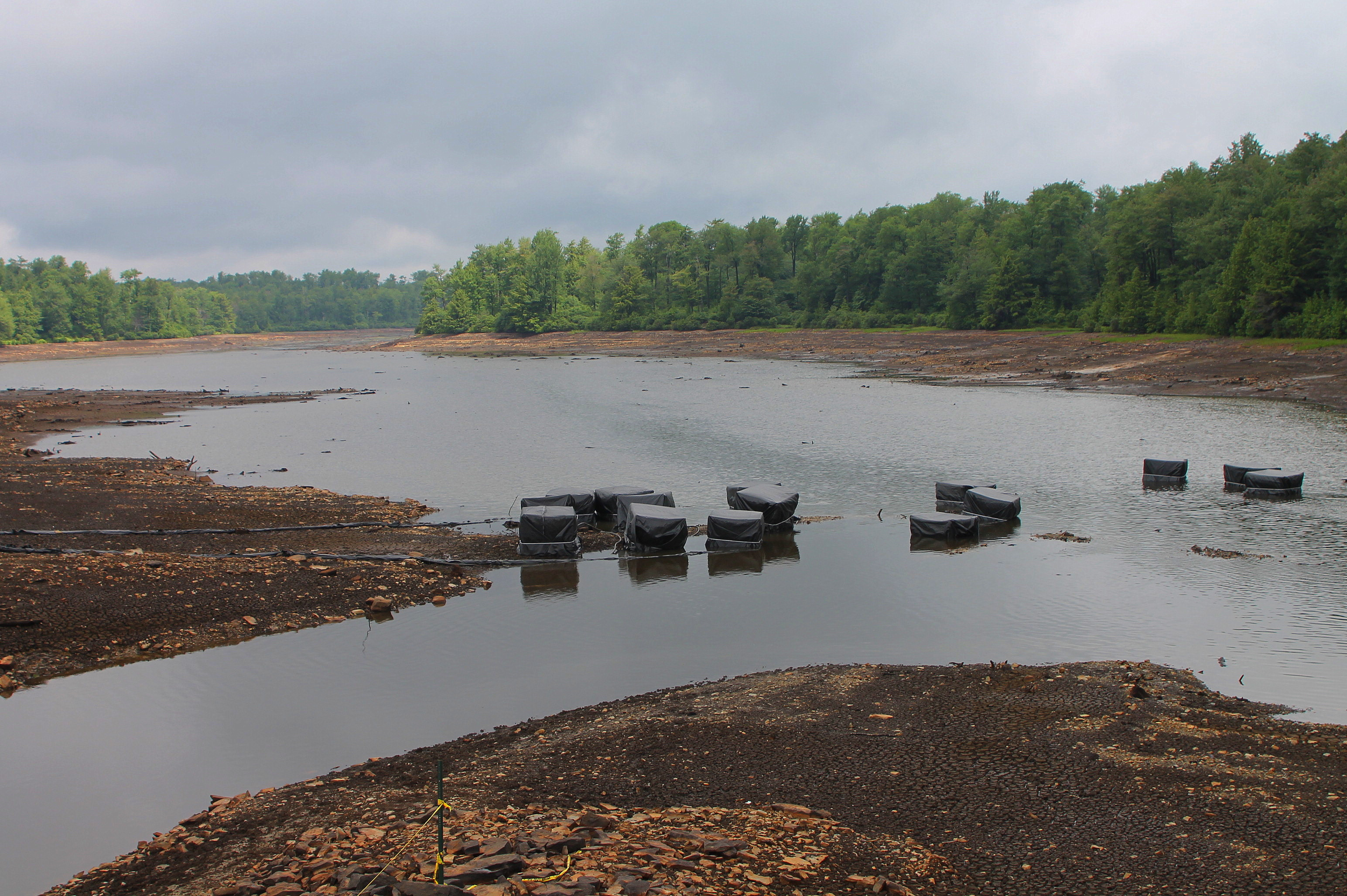 Lake Jean in June 2015. The lake is being drained for dam repairs. Taken from the Lake Jean Dam